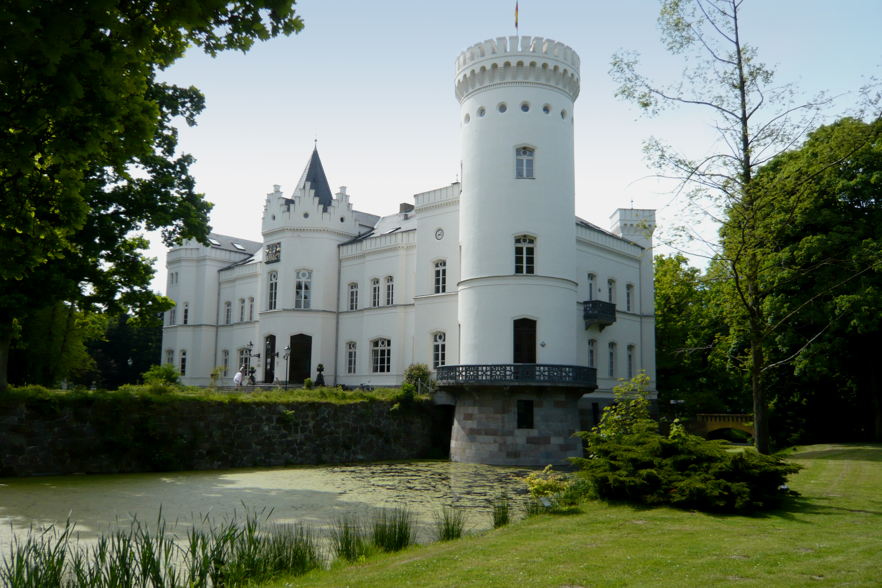 Castle Schlemmin is located near the municipality Schlemmin in Mecklenburg-Vorpommern, Germany.